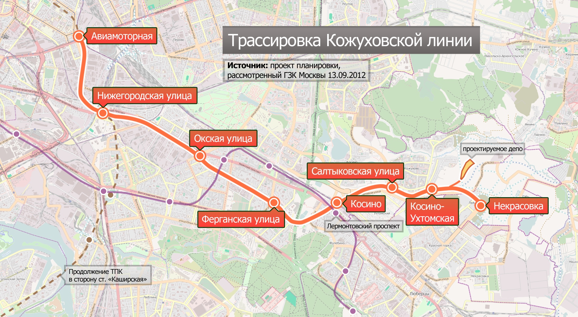 The map of Kozhovskaya Line of Moscow Metro